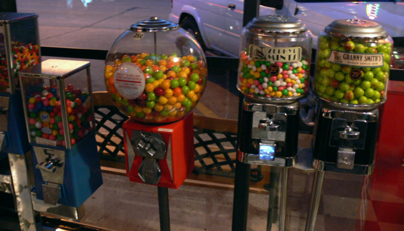 Gumball machines in a Diner at Dallas, Texas, in 2008.